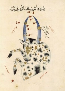 Bull constellation in Abd al-Rahman al-Sufi astronomy treatise